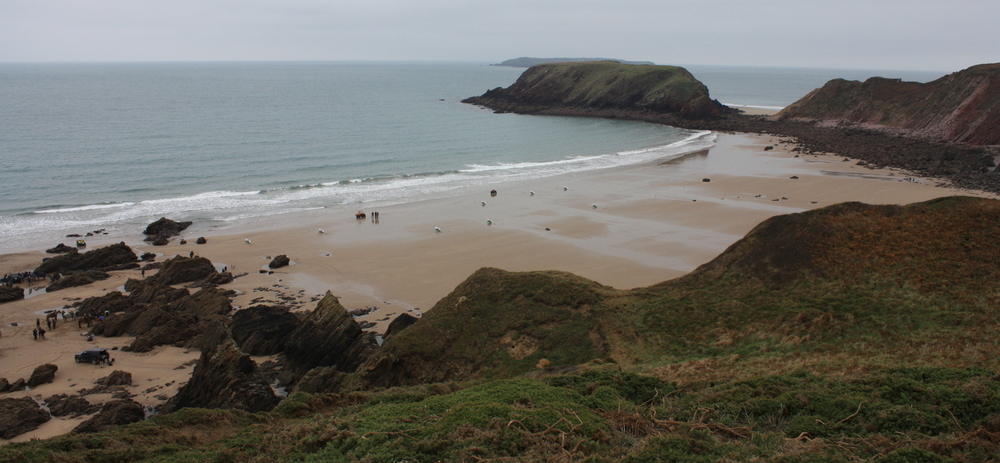 The Marloes Sands beach at the filming of Snowhite and the Huntsman